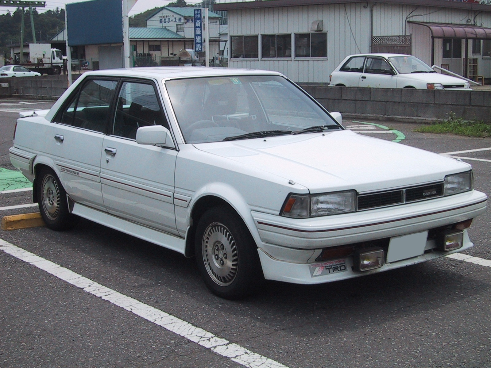 Toyota Carina series ST162 sedan